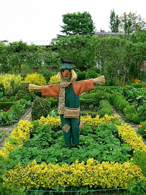 Barnsley House kitchen garden, Barnsley Designer gear is de rigeur in this part of the Cotswolds.